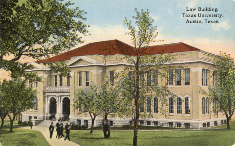 Postcard showing the Law Building of the University of Texas at Austin in Austin, Texas, USA.